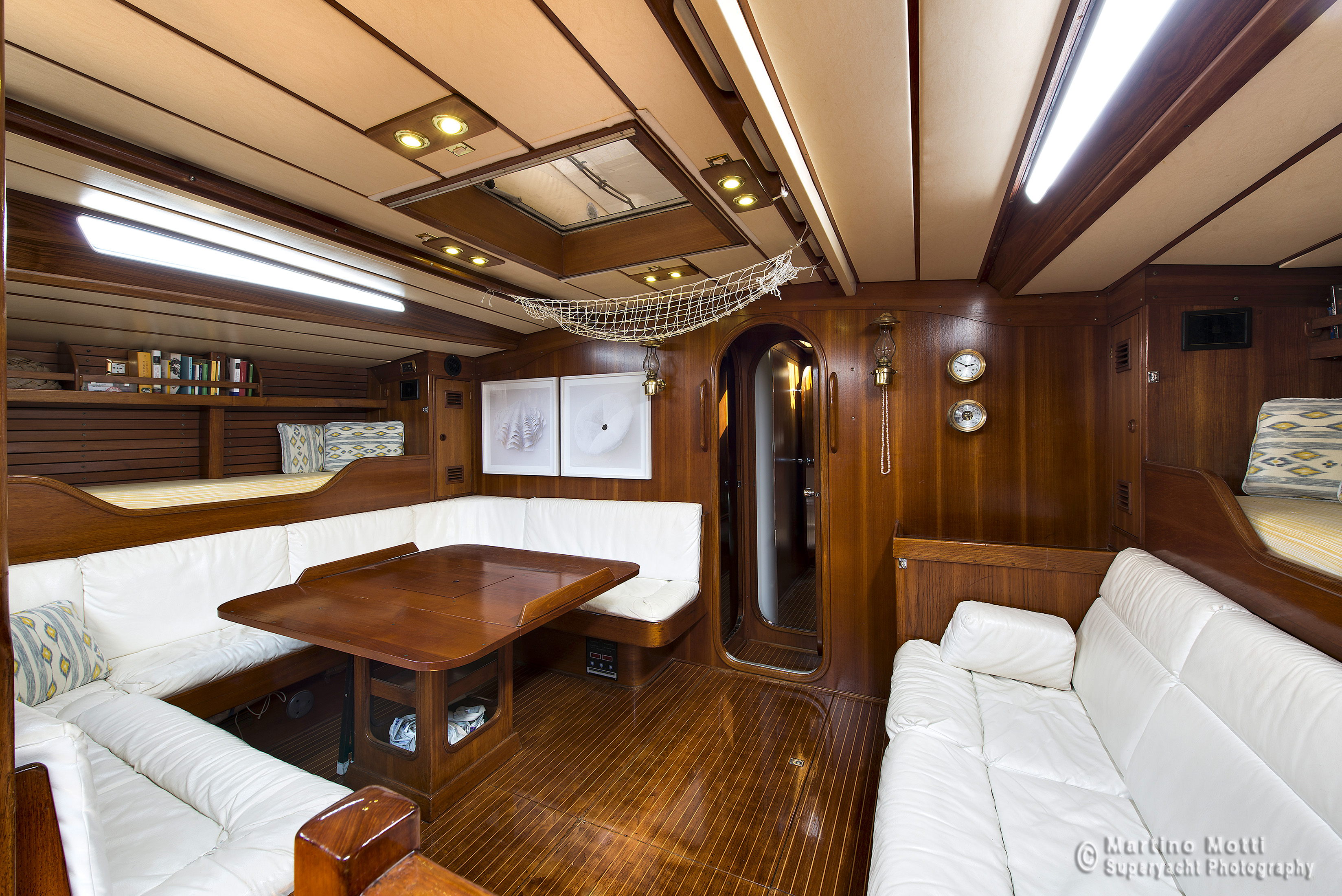 Swan Sail Yacht - Odile Marie